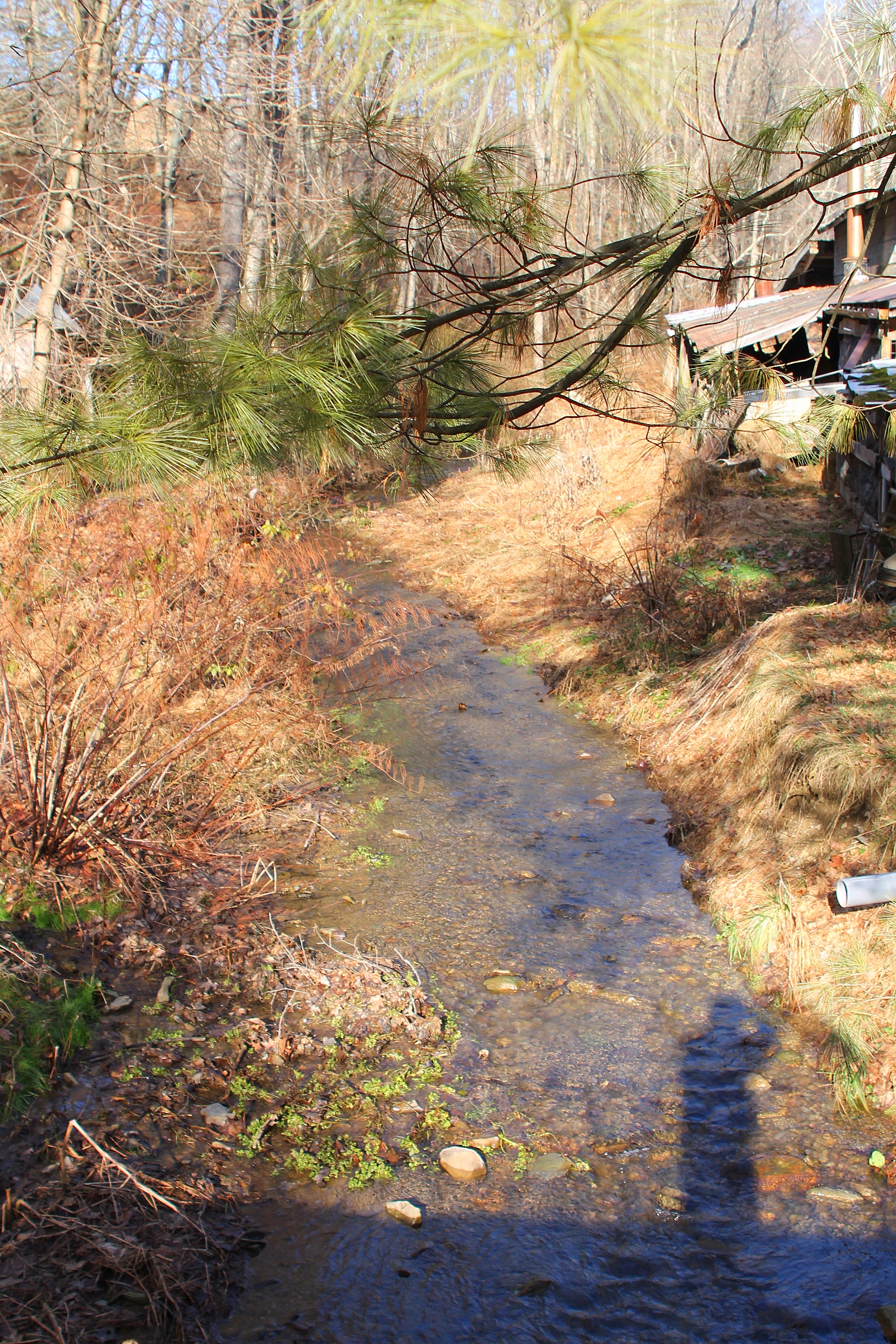 Culley Run looking upstream in its middle reaches